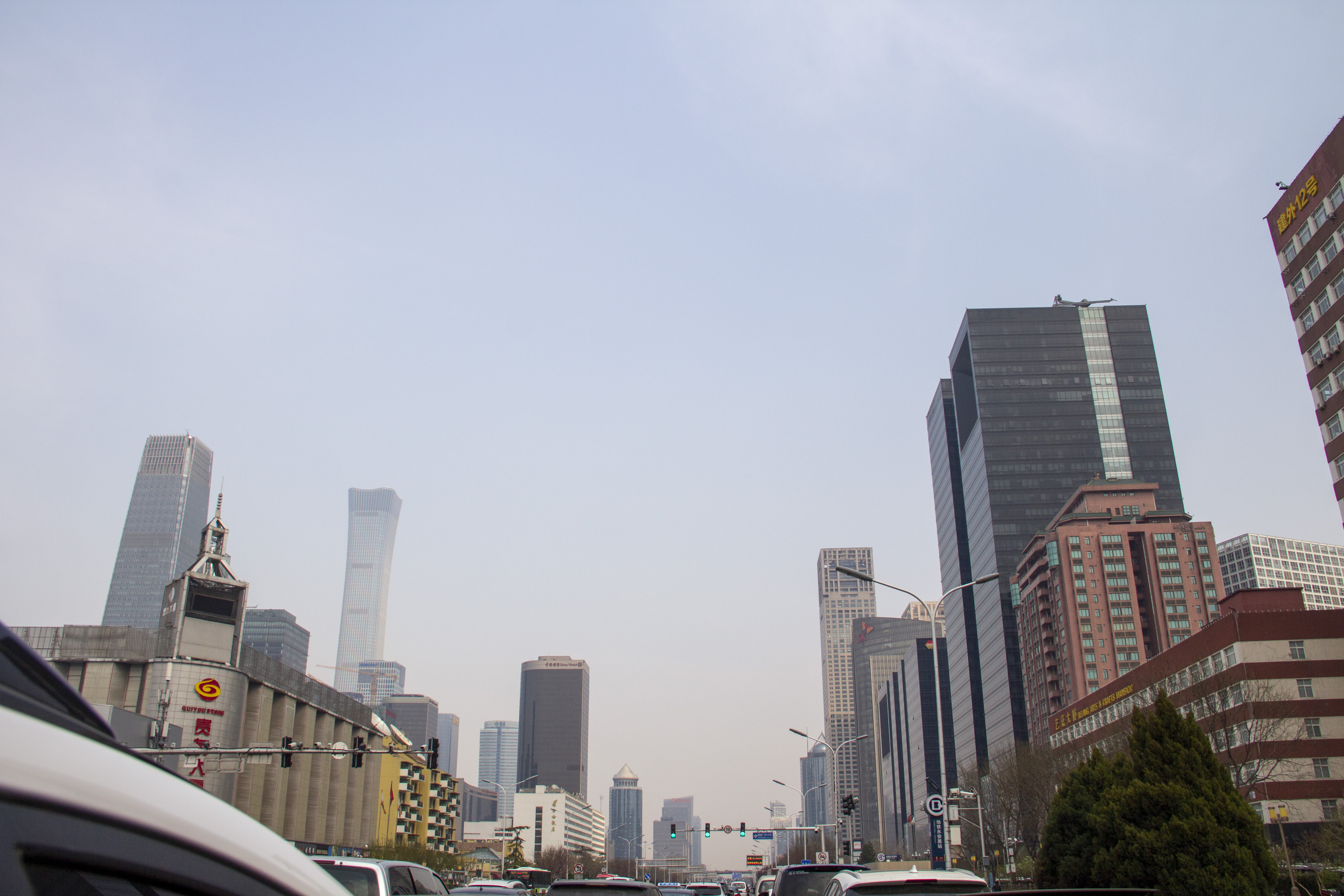 Jianguomen Outer Street